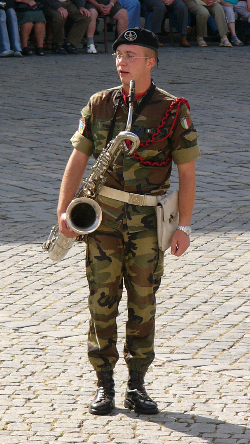 An Italian military band's saxophonist holding a baritone saxophone.